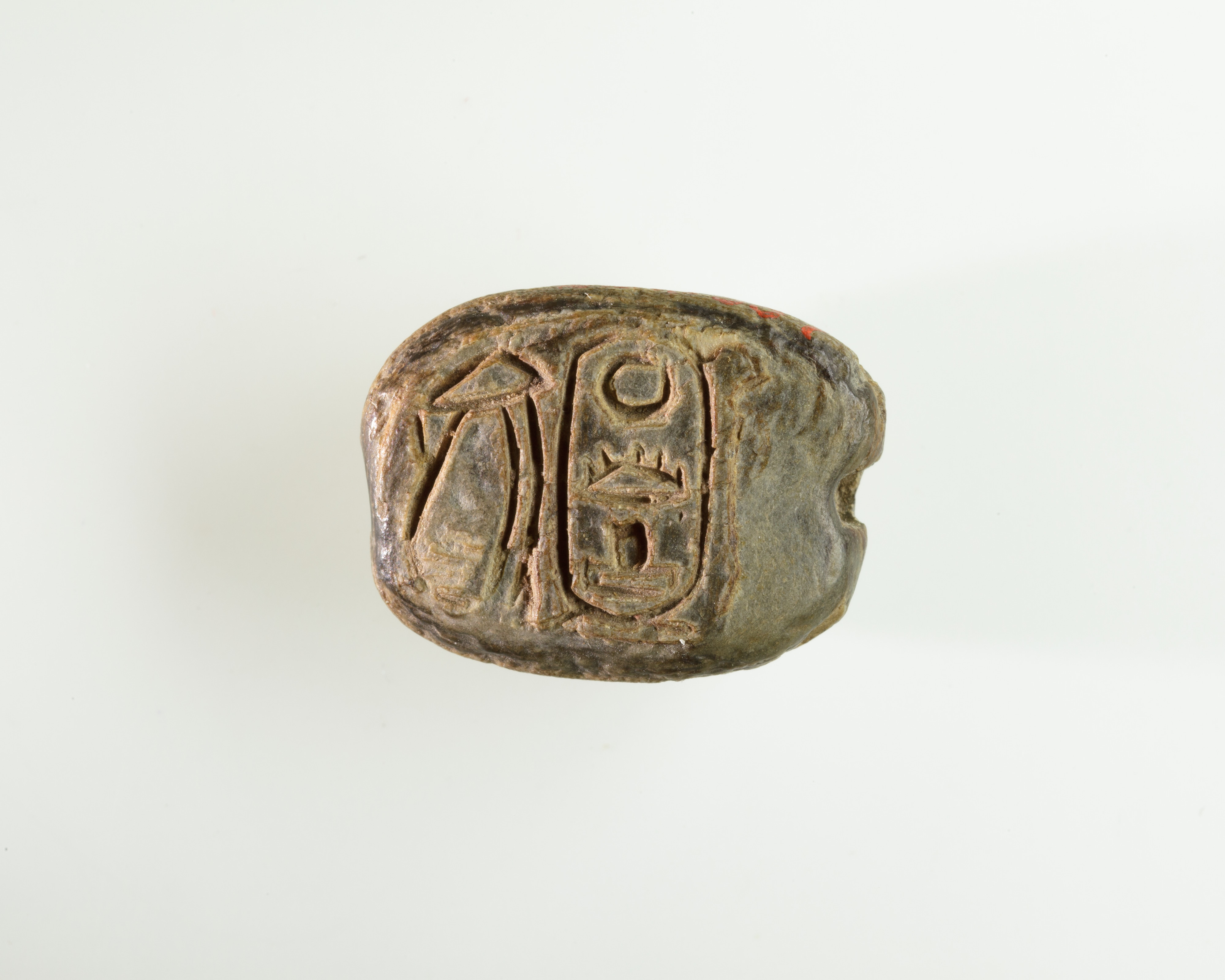 Scarab, Sebekhotep V or Sebekhotep VI